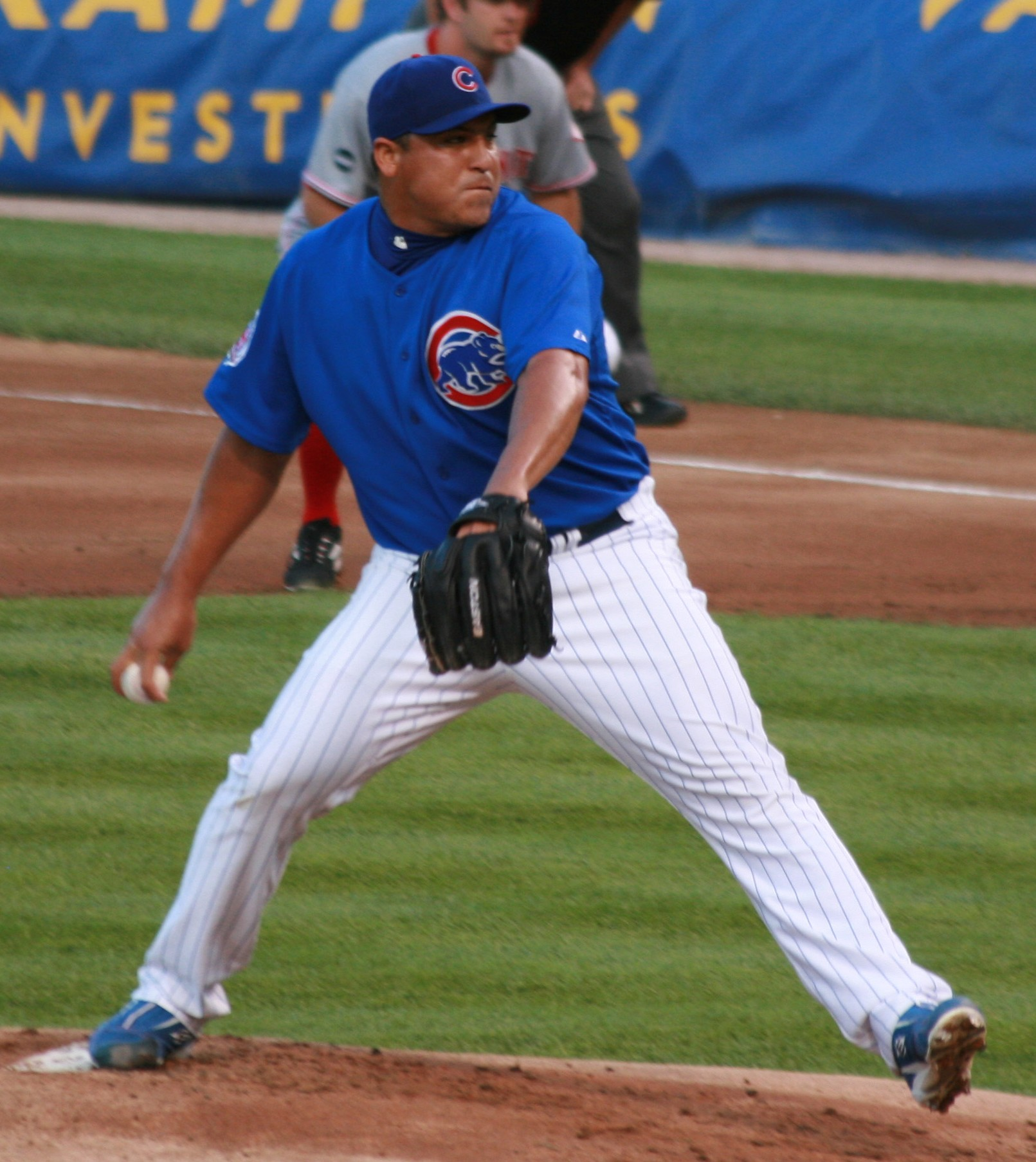 Carlos Zambrano of the Chicago Cubs pitching (cropped).